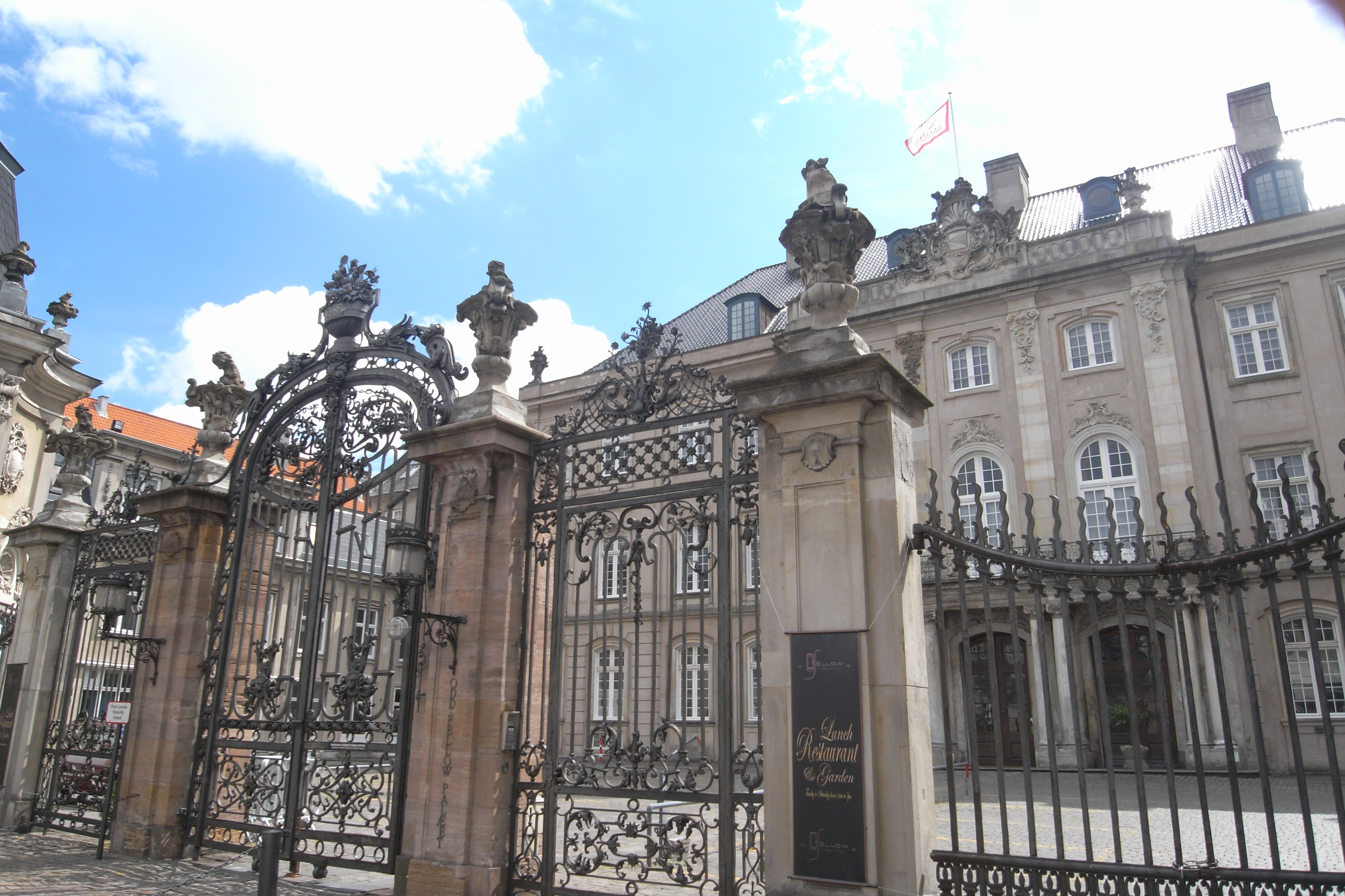 The gate at the Odd Fellow Mansion in Bredgade in Copenhagen, Denmark